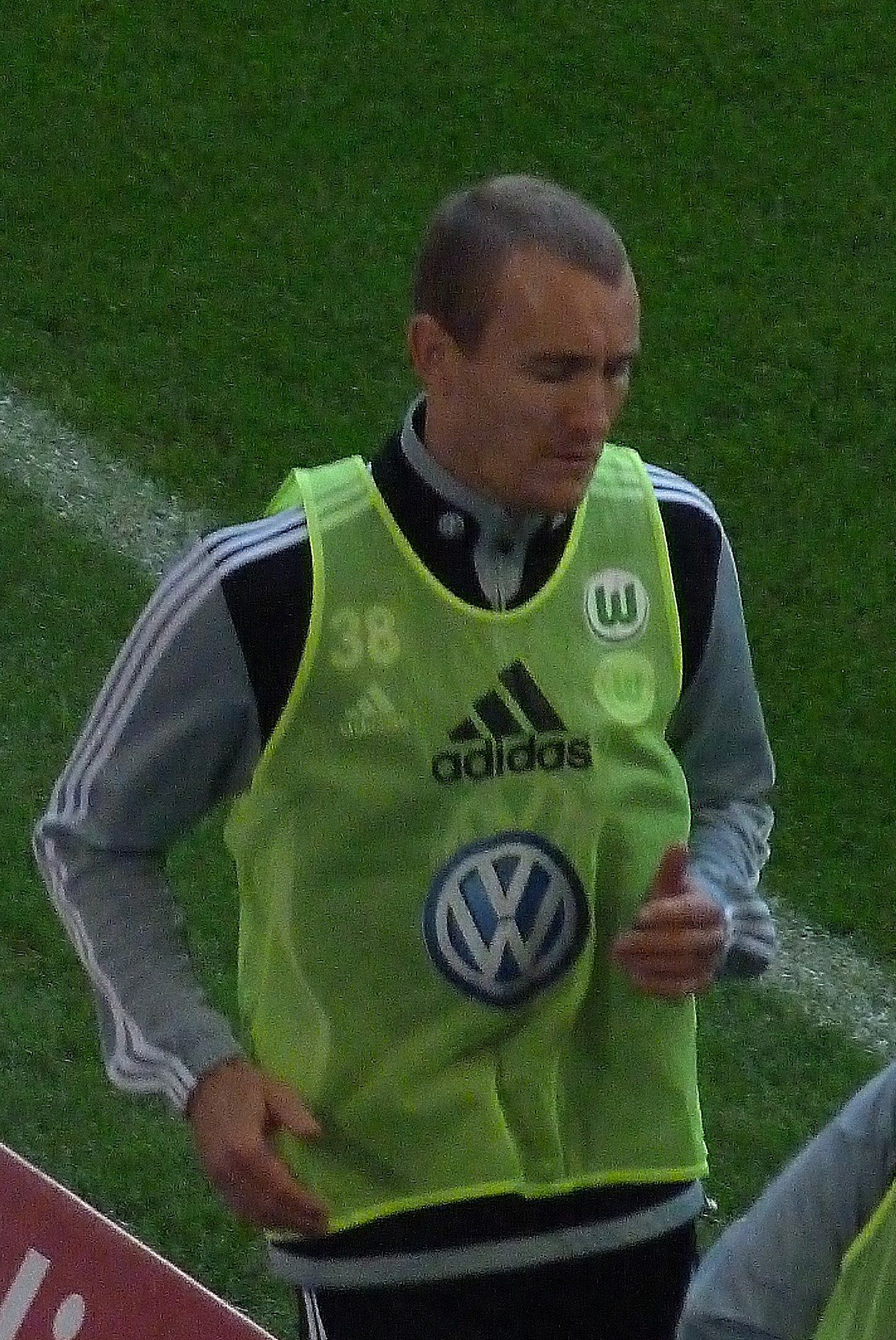 Thomas Kahlenberg as Player from VfL Wolfsburg